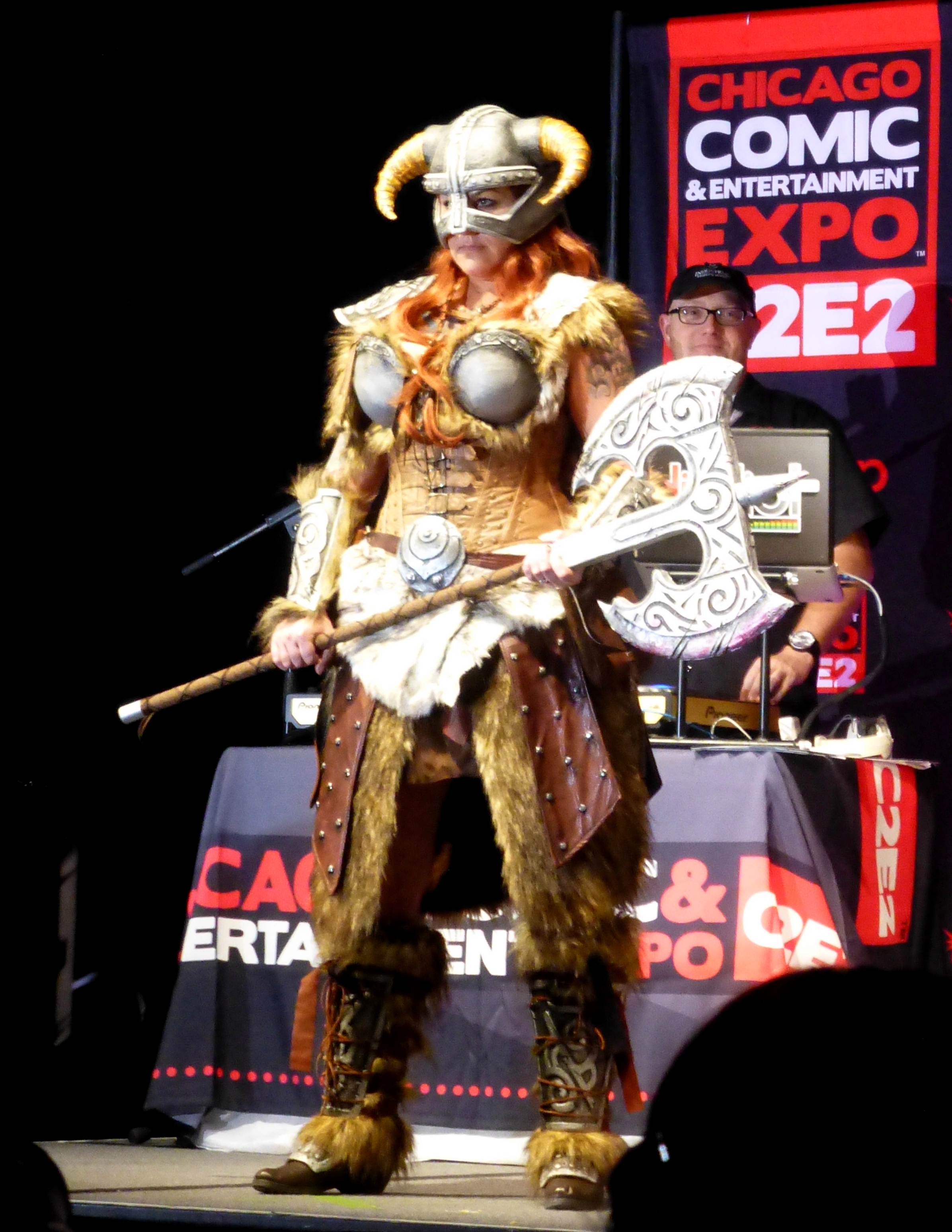 Kael from Gaelhunter Cosplay-Female Dovahkiin Cosplay at Chicago Comic & Entertainment Expo (C2E2) 2015.